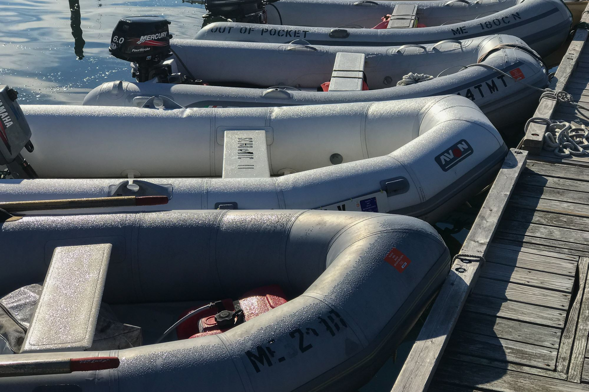 Inflatable yacht tenders tied to a finger dock allow yacht owners to travel between their moored boats and shore.